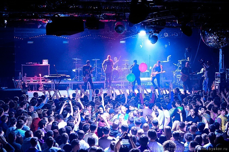 Rychagy Mashin in Б1 Maximum Moscow